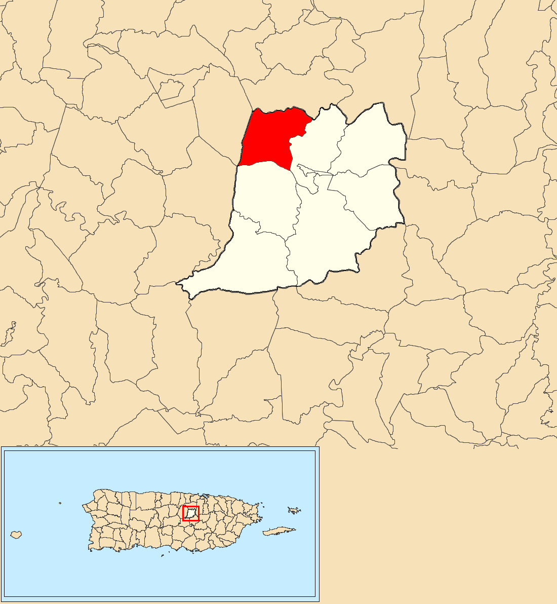 Lomas, Naranjito, Puerto Rico locator map